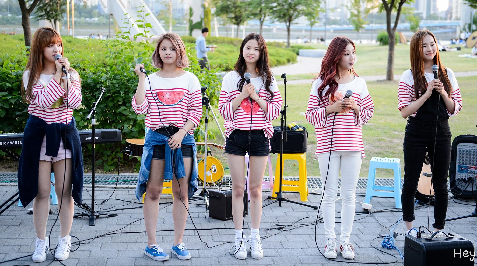 CLC in Ttukseom Hangang Park, 3 June 2015